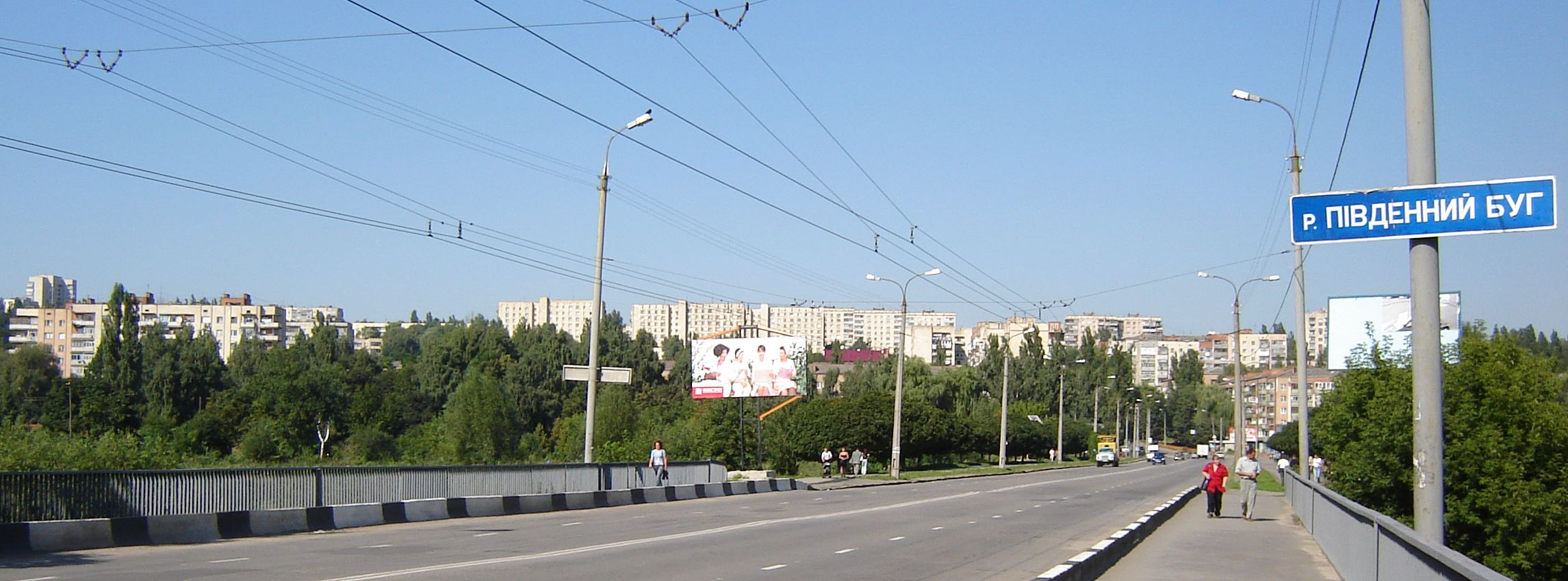 Svobody St. - one of the main streets of the Khmelnitsky, Ukraine. Sunny summer day view.